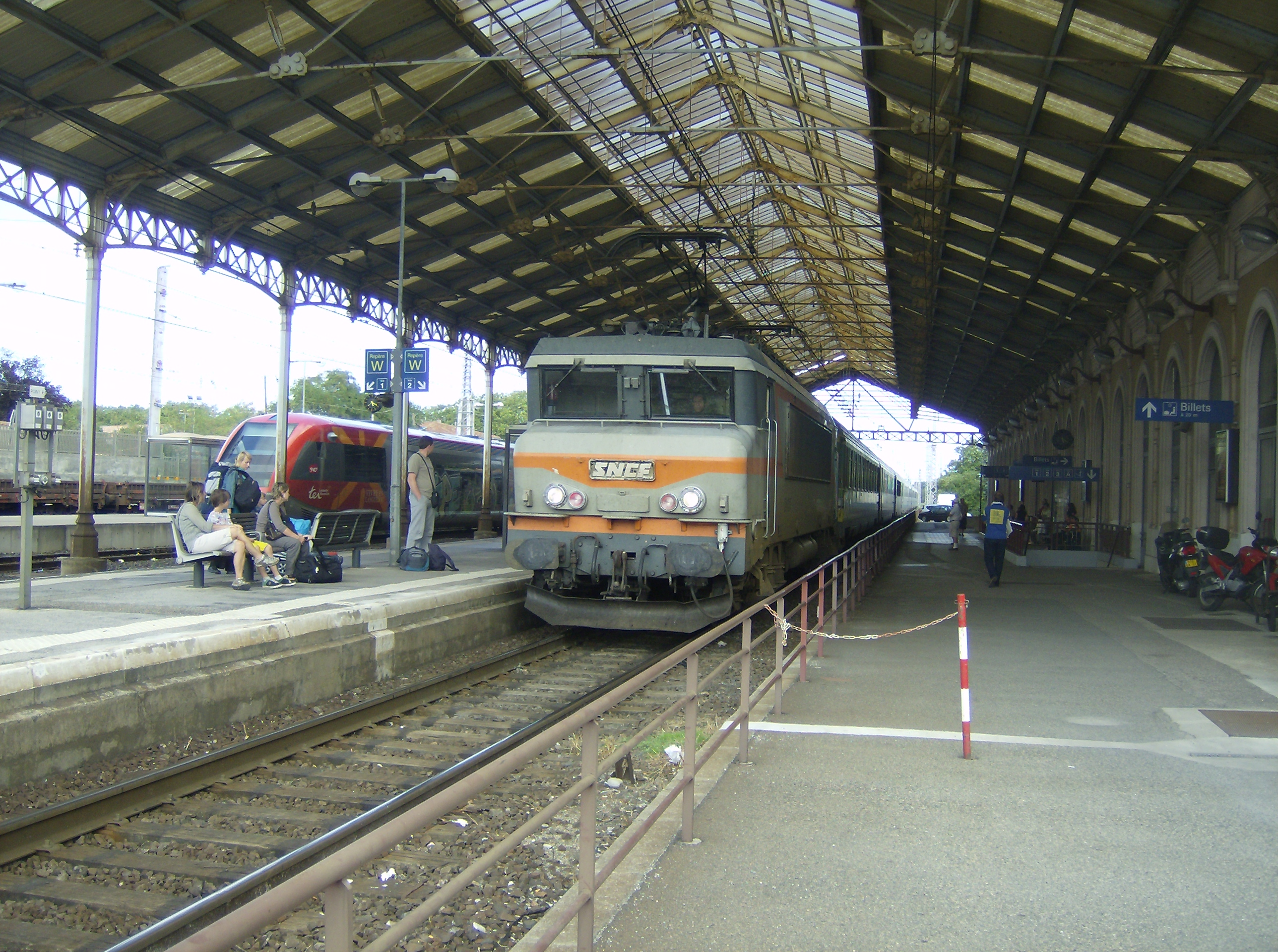 A Train passes through Carcassonne station, France